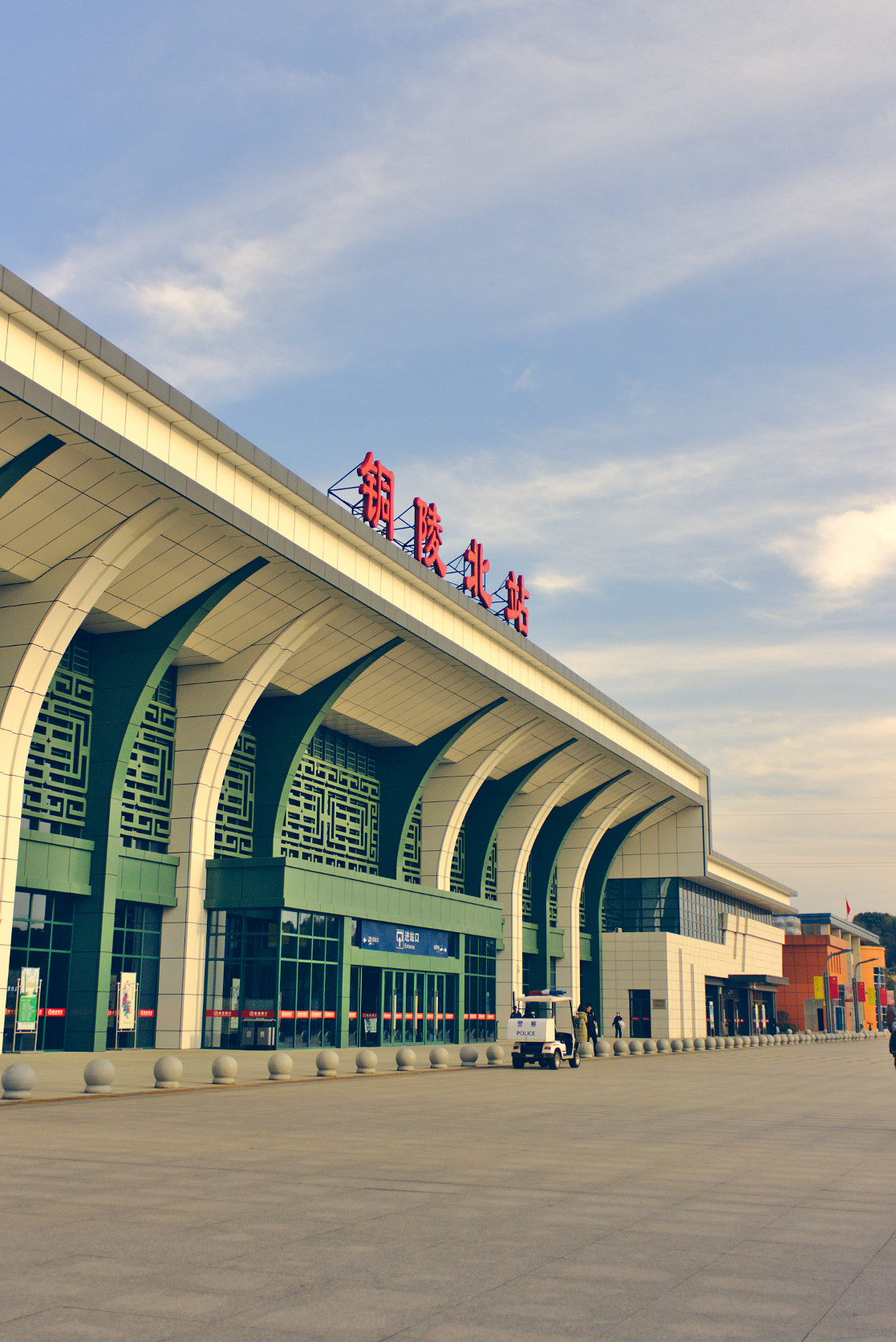 Main entrance of the station